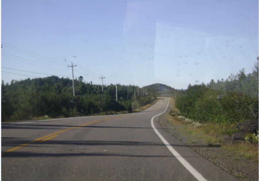 NL Route 340 (Road To The Isles). Heading north towards Twillingate August 2007.